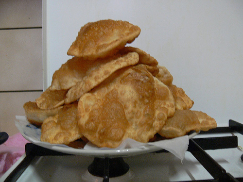 A South Asian dish made out of wheat flour served with curry/side dish.